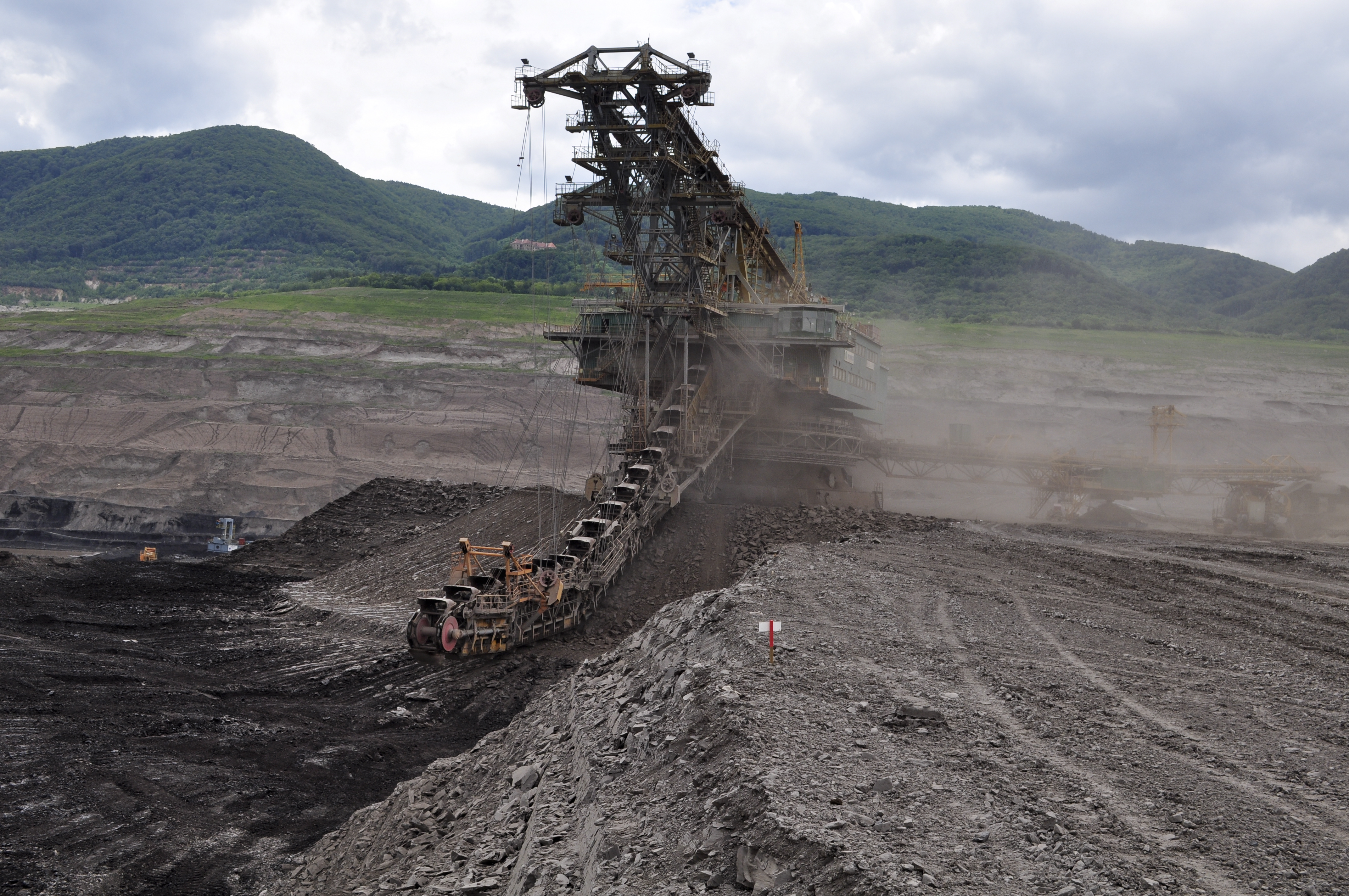 Excavating machine RK5000